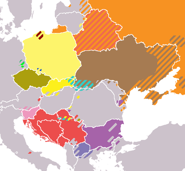 Version with English legend available at Image:Slavic languages.png. Legend uses Myriad Pro font, 12px for language names.